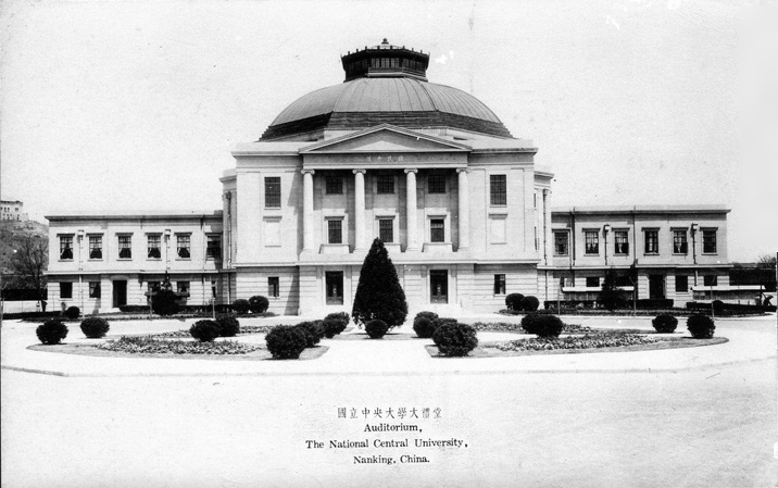 Auditorium of National Central University, Nanjing, 1930s.